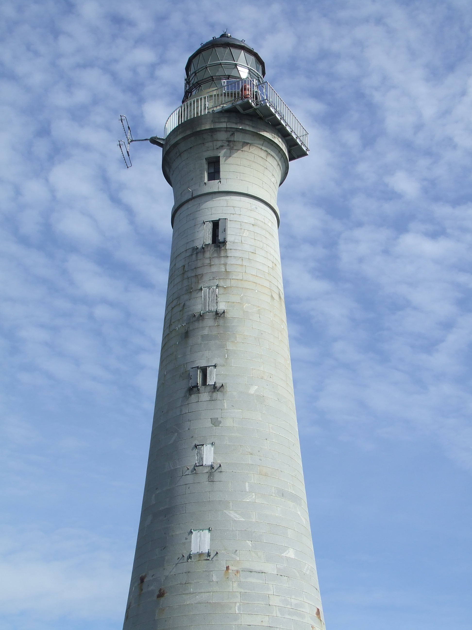 Chicken Rock Lighthouse, near to Chicken Rock [other Features], Isle of Man, Great Britain.